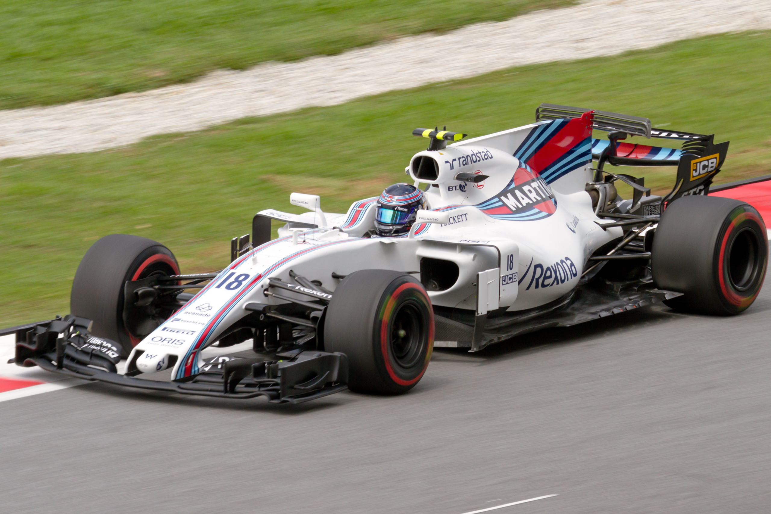 Formula One 2017 Rd.15 Malaysian GP: Lance Stroll (Williams)